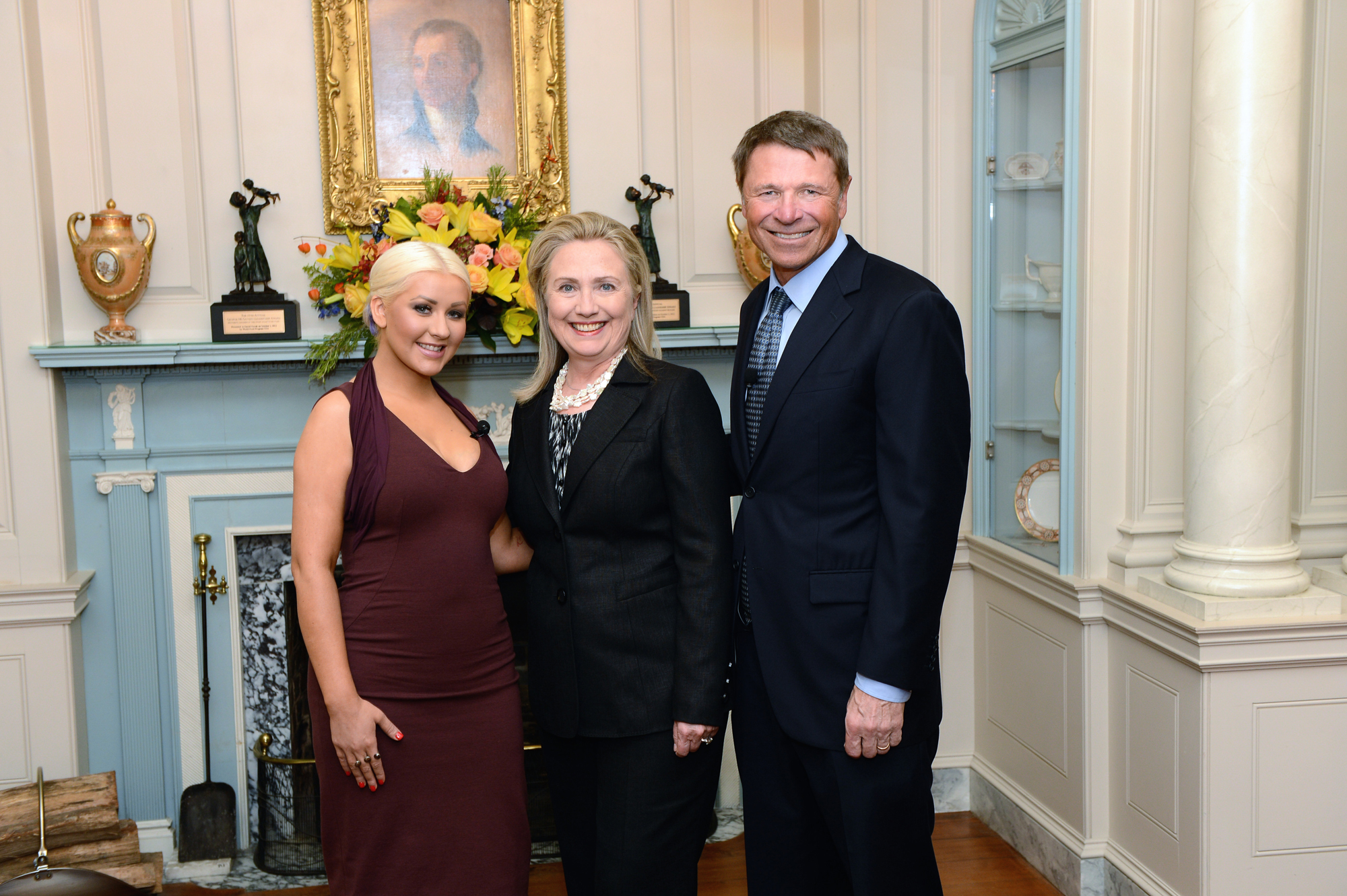 U.S. Secretary of State Hillary Rodham Clinton poses for a photo with David Novak, Chairman and CEO of Yum! Brands, right; and Christina Aguilera, United Nations World Food Program (WFP) Ambassador Against Hunger, left; at the World Food Program-USA Awards Ceremony at the U.S. Department of State in Washington, D.C., October 3, 2012. [State Department photo/ Public Domain]